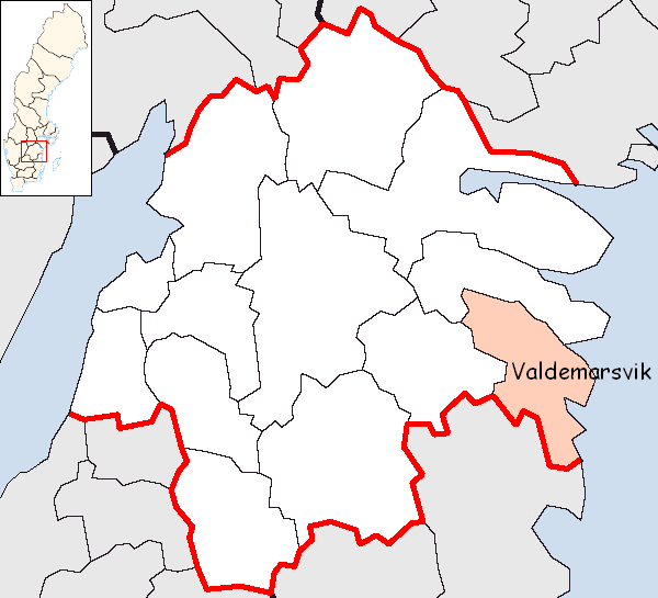 Valdemarsvik Municipality in Östergötland County Designed by me. Mere outlines are a PD source from